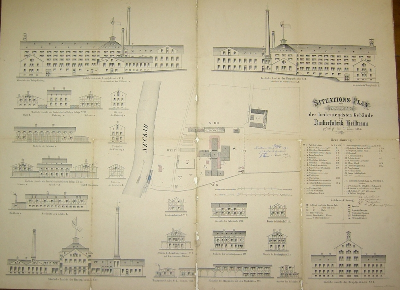 Zuckerfabrik Heilbronn